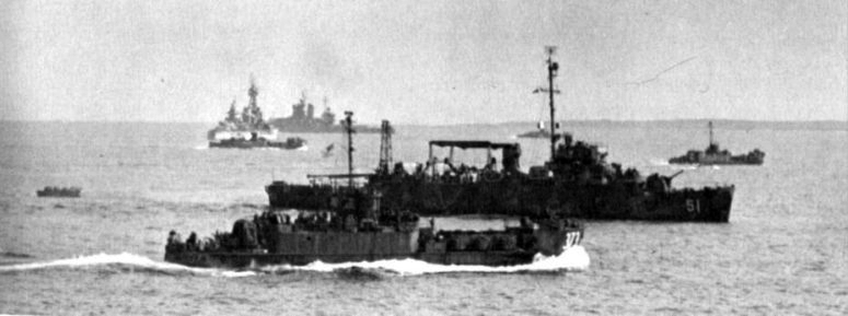 The U.S. Navy high-speed transport USS Hopping (APD-51) and USS LCI(L)-373 during amphibious landing operations off Okinawa, in 1945. Several infantry landing craft (LCI) are heading for the beach, while the battleships, USS New York (BB-34) and USS Idaho (BB-42), are visible in the background.